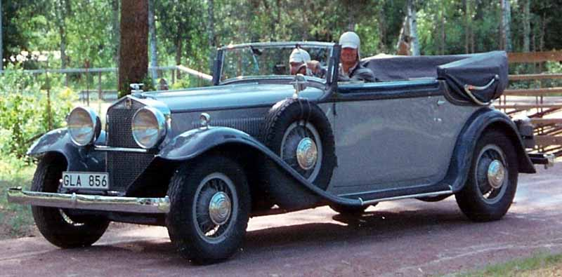 Horch 470 Cabriolet 1931